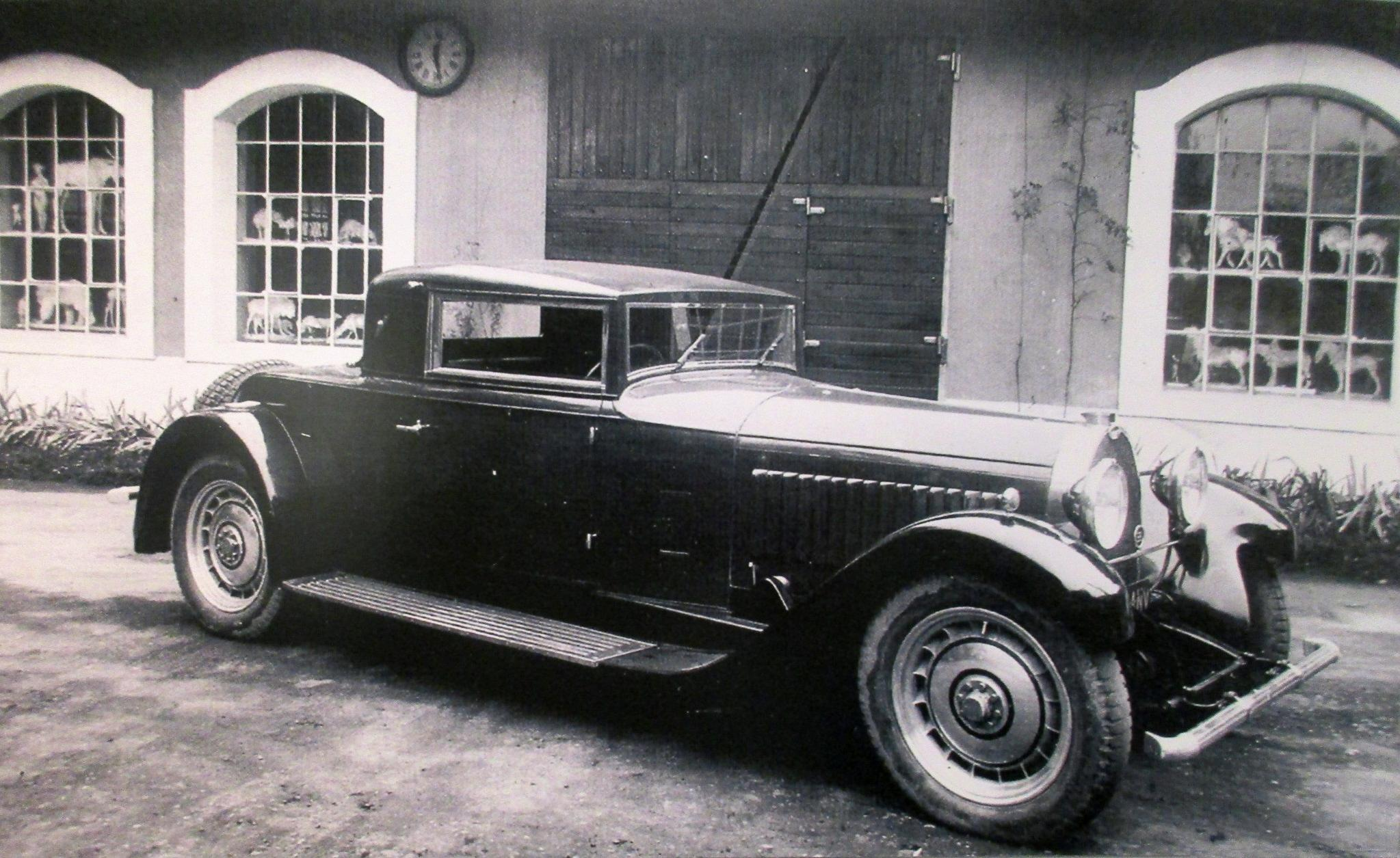 A Bugatti 46 from 1931, in front of the factory buildings in Molsheim. In the background some of Rembrandt Bugatti's sculptures can be seen.